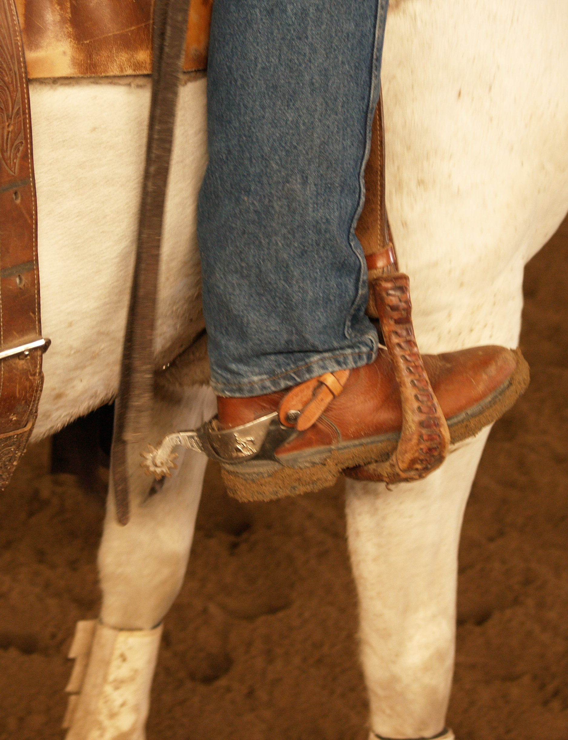 Spurs in western style